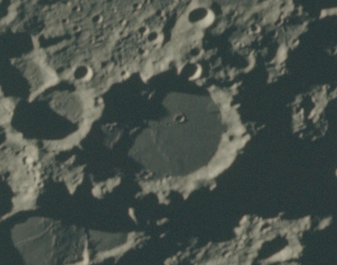 Kugler, Mare Australe, on the far side of the moon. North at top.